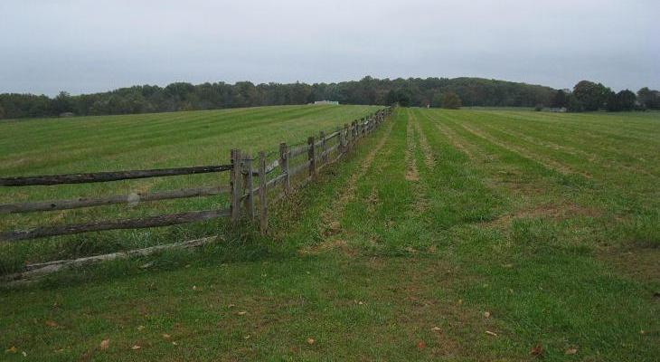 Brandywine Battlefield looking SW from near the intersection of Wylie and Birmingham Roads. Attack of the British grenadiers went from right to left.